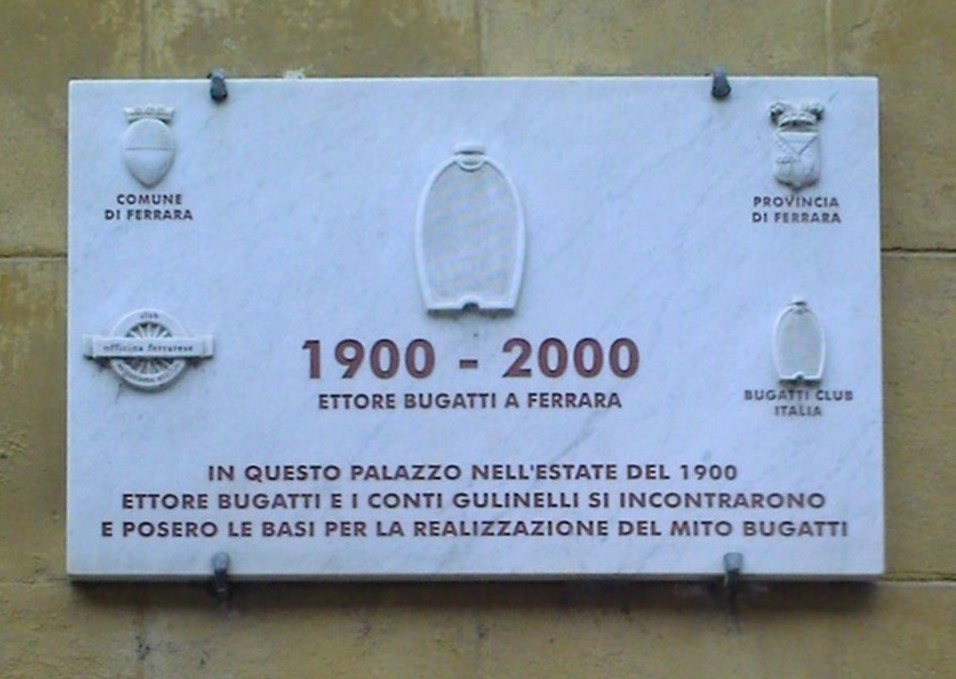 Commemorative plate for financing agreement between Ettore Bugatti and Count Gulinelli near Palazzo Gulinelli main door in Ferrara - Italy